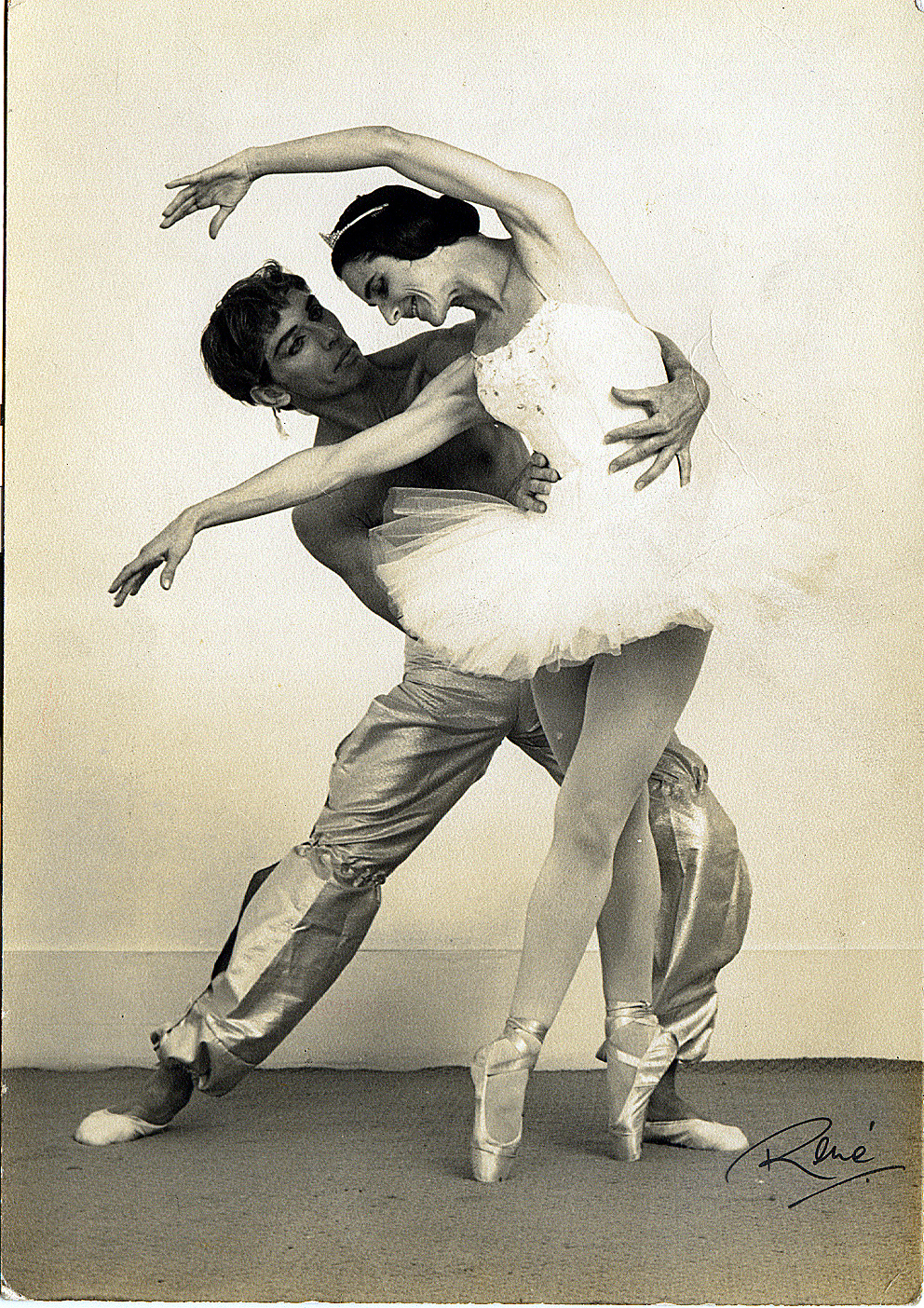 La Bayadere with Earl Kraul in Panama. Foto by René.